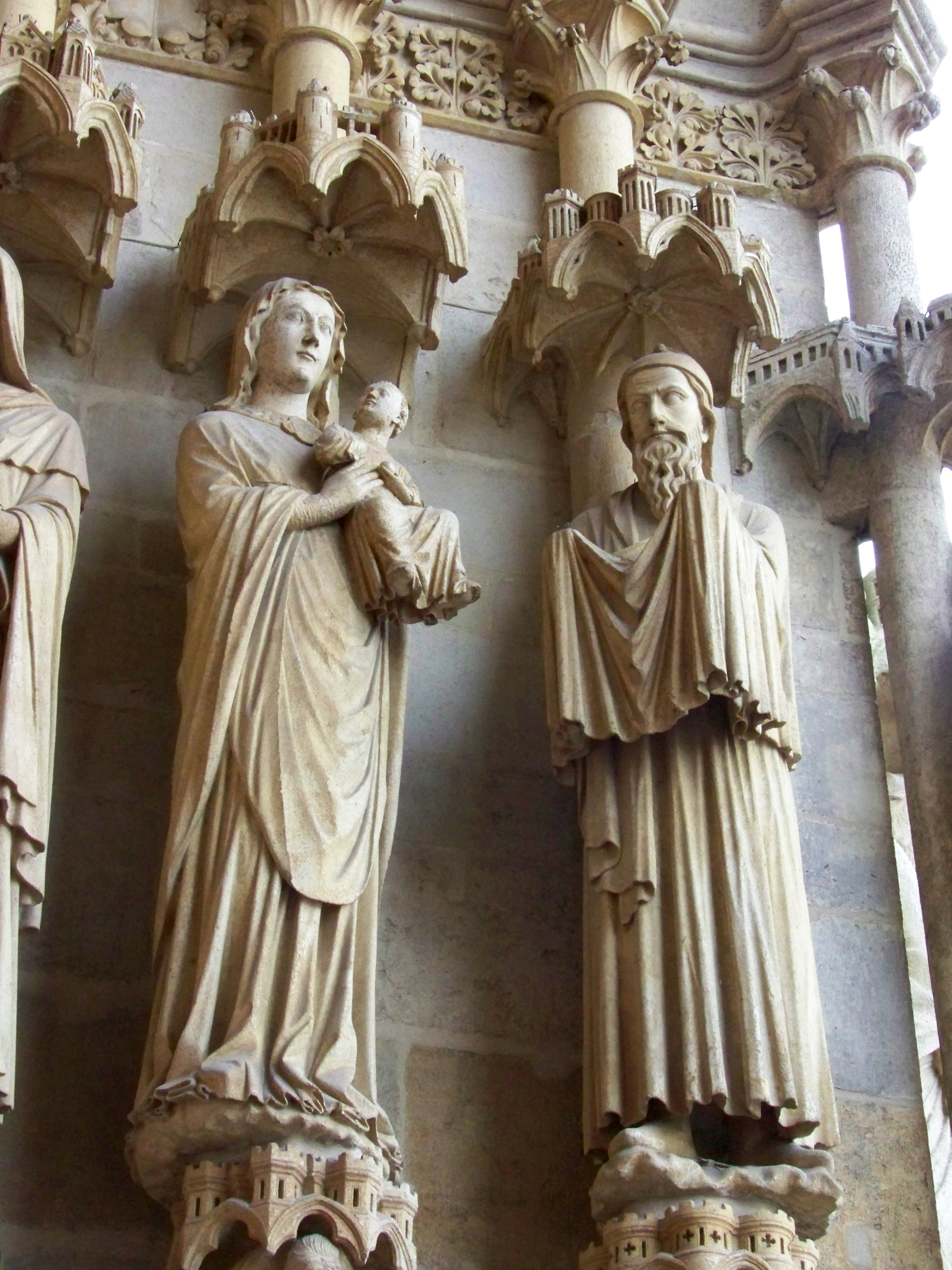 Candlemas, southern portal of the facade of the cathedral Notre-Dame in Amiens, France